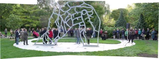 The new Tolpuddle martyr memorial sculpture which was dedicated in London, Ontario, Canada on Sept. 15, 2011 by the London District Labour Council. Many local unions donated towards this poignant public art in London's Peace Gardens which reflect the "GOOD Hands" and the support of Friends of Tolpuddle. Photo was taken during the dedication service to the new Tolpuddle Sculpture by David Bobier and Leslie Putman.